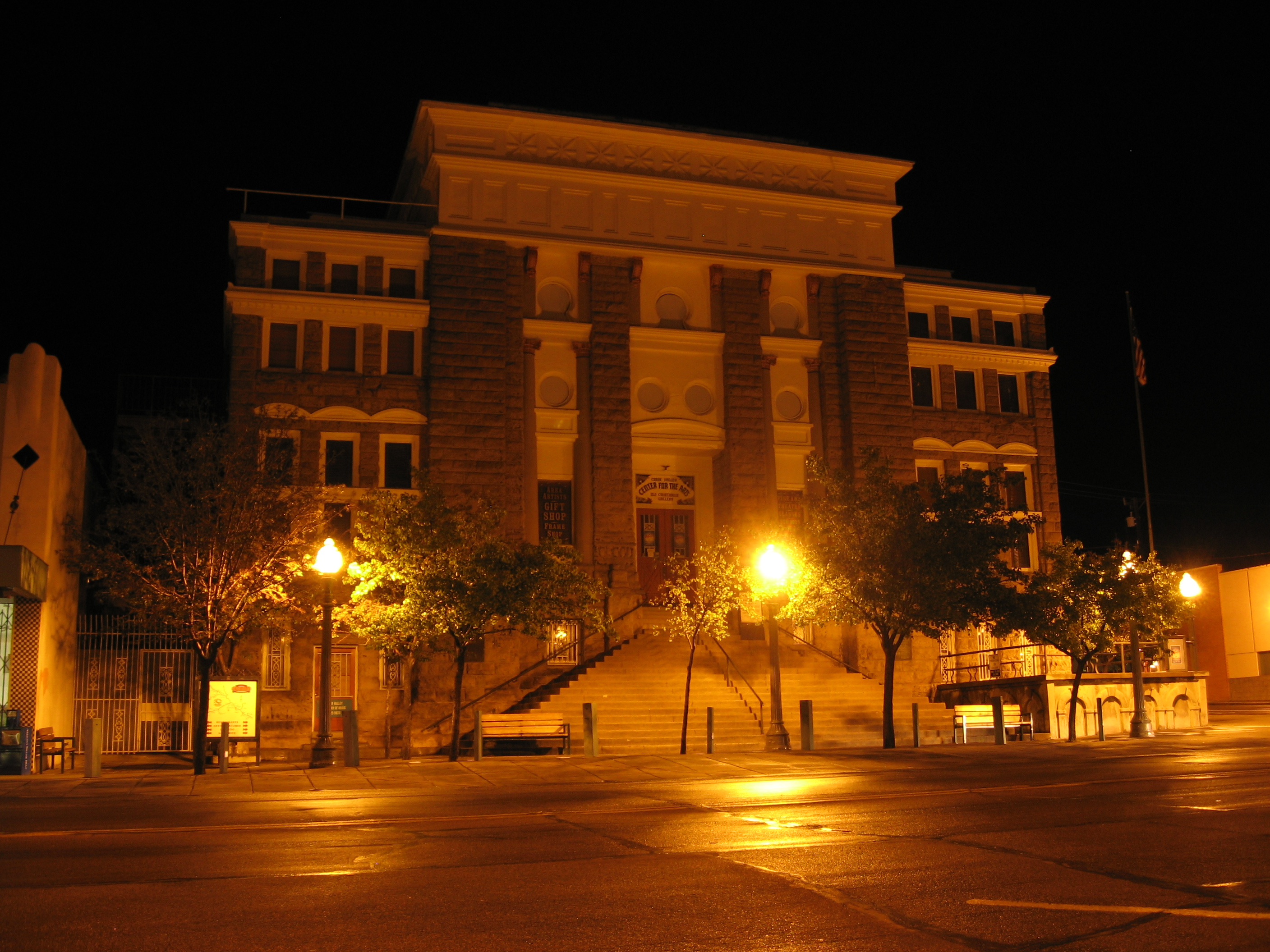 Gila County courthouse in Globe, Arizona